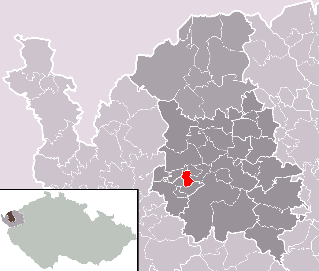 Location of Dasnice municipality within Sokolov District and administrative area of Sokolov as a Municipality with Extended Competence.